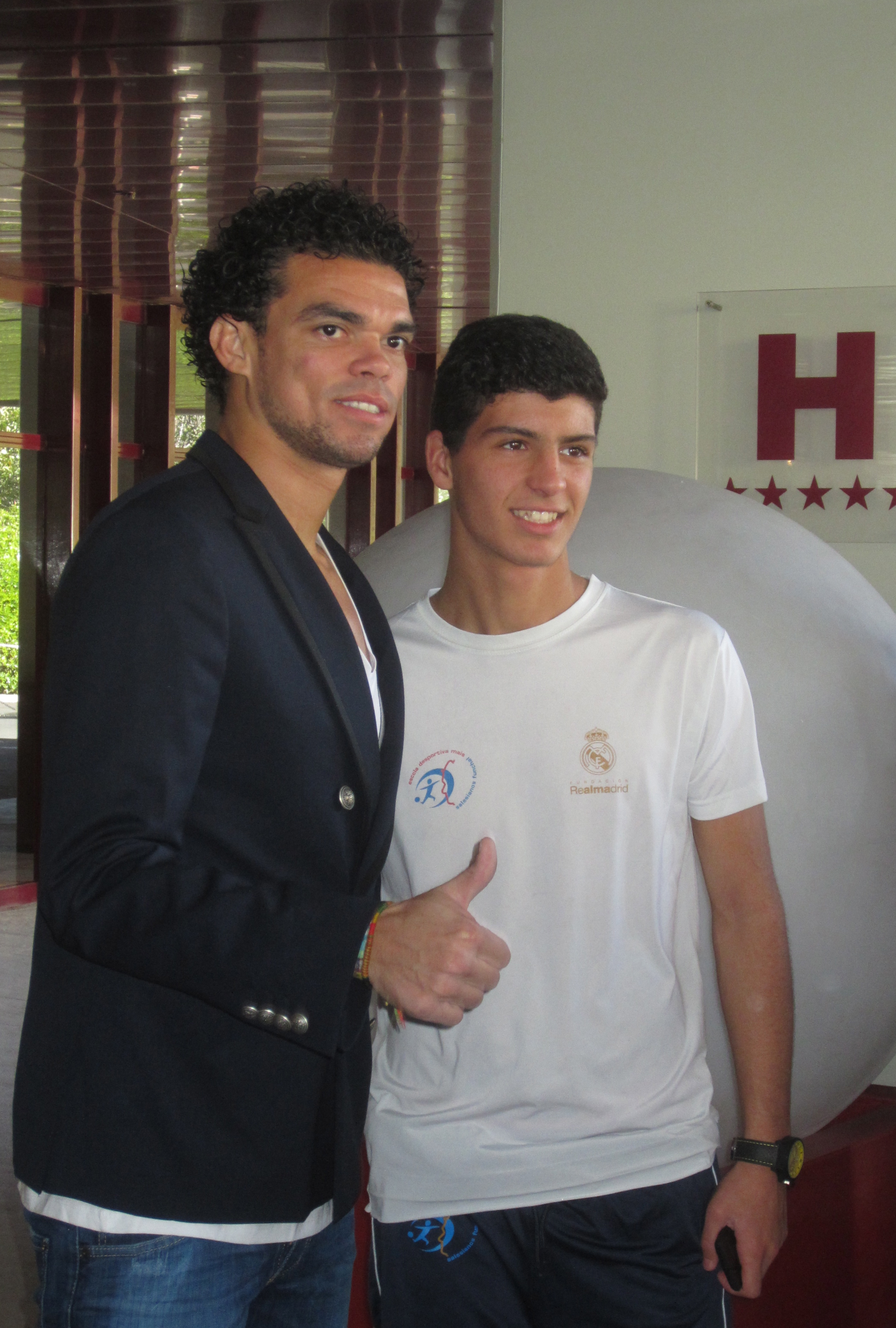 Pepe with young fotballplayer from Real Madrid in Funchal 15 December 2013.